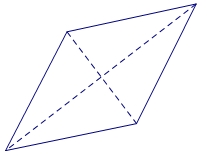 Rhombus